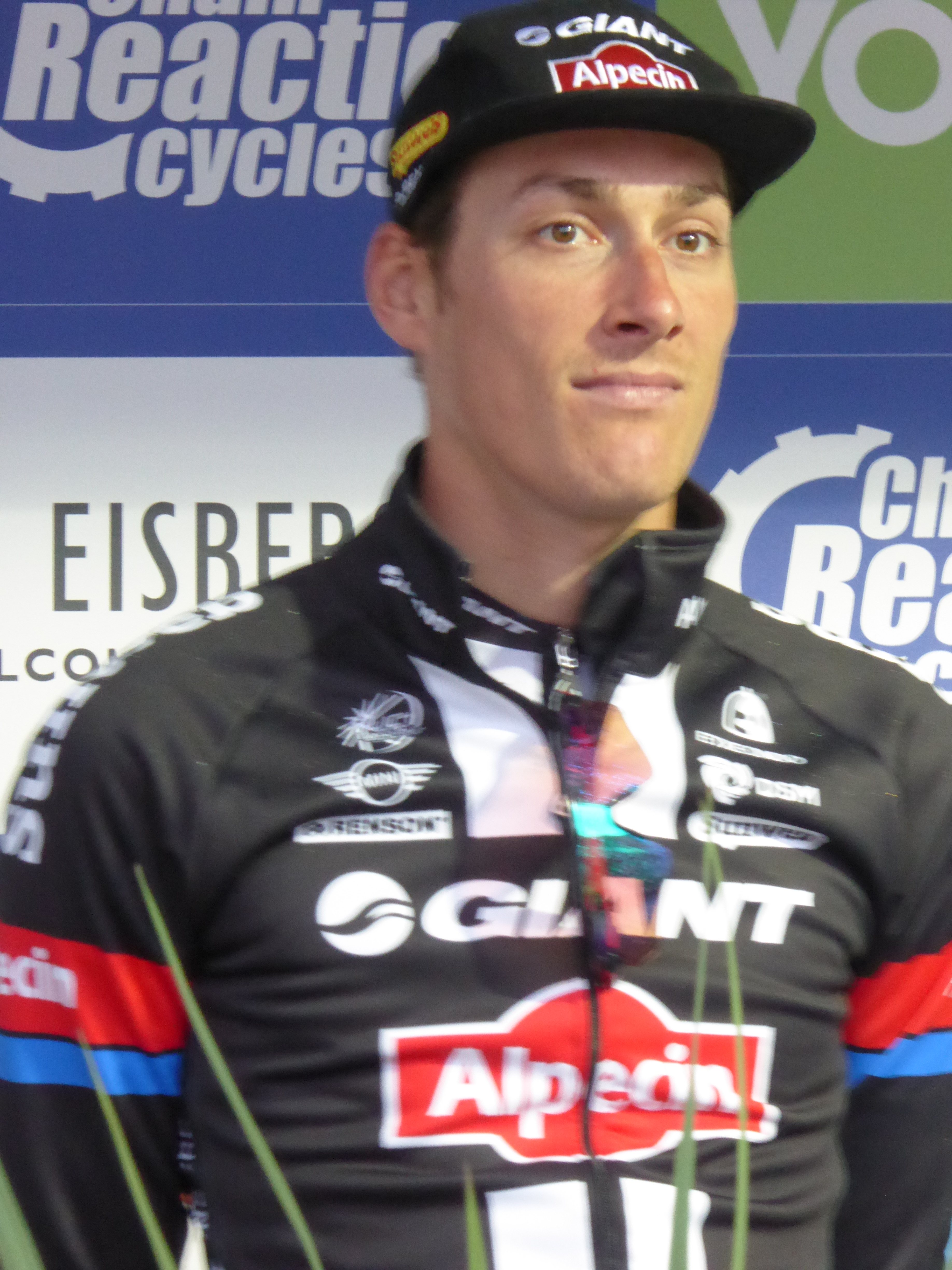 Ramon Sinkeldam (Team Giant-Alpecin), pictured at the 2016 Tour of Britain team presentation in Glasgow on 3 September 2016.